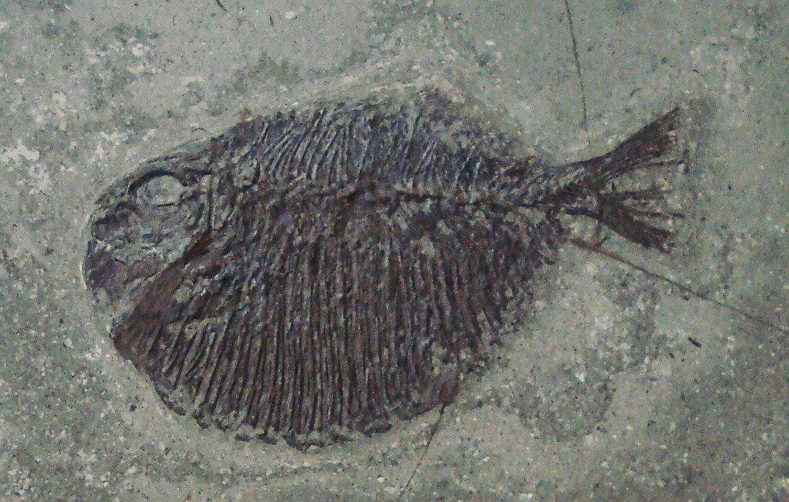 fossil of tetragonolepis